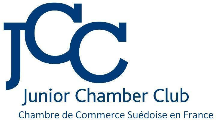 JCC logotype